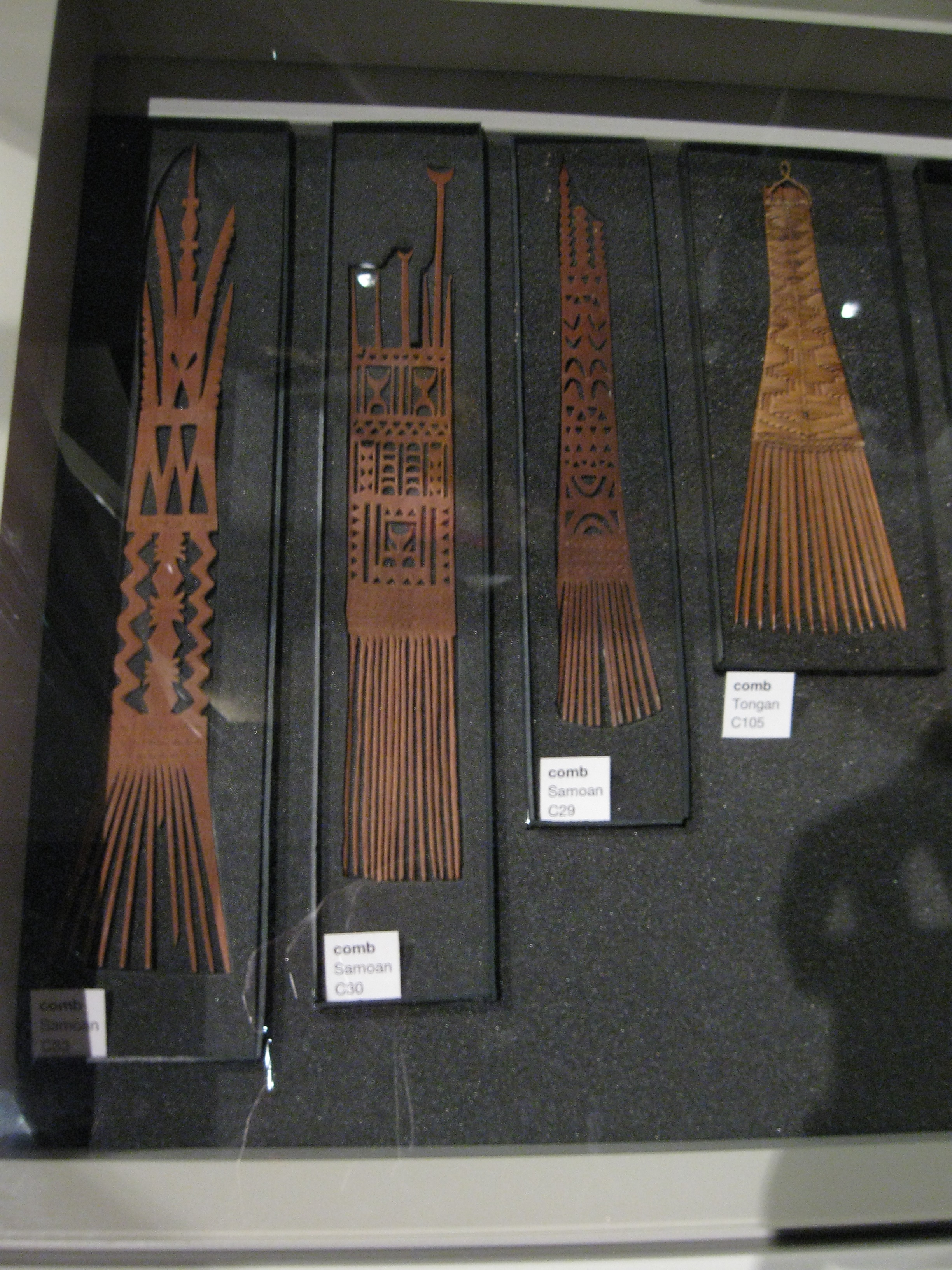 This is a set of unique and slightly different native Tongan (Polynesian) combs. They are today located in UBC's Museum of Anthropology in Vancouver, Canada.